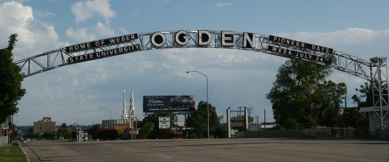 "Ogden" sign in Ogden, Utah. This picture was taken from the east sidewalk of Washington Boulevard at one of the trailheads of (parking areas for) the Ogden River Parkway. The picture was taken southward, towards downtown Ogden.